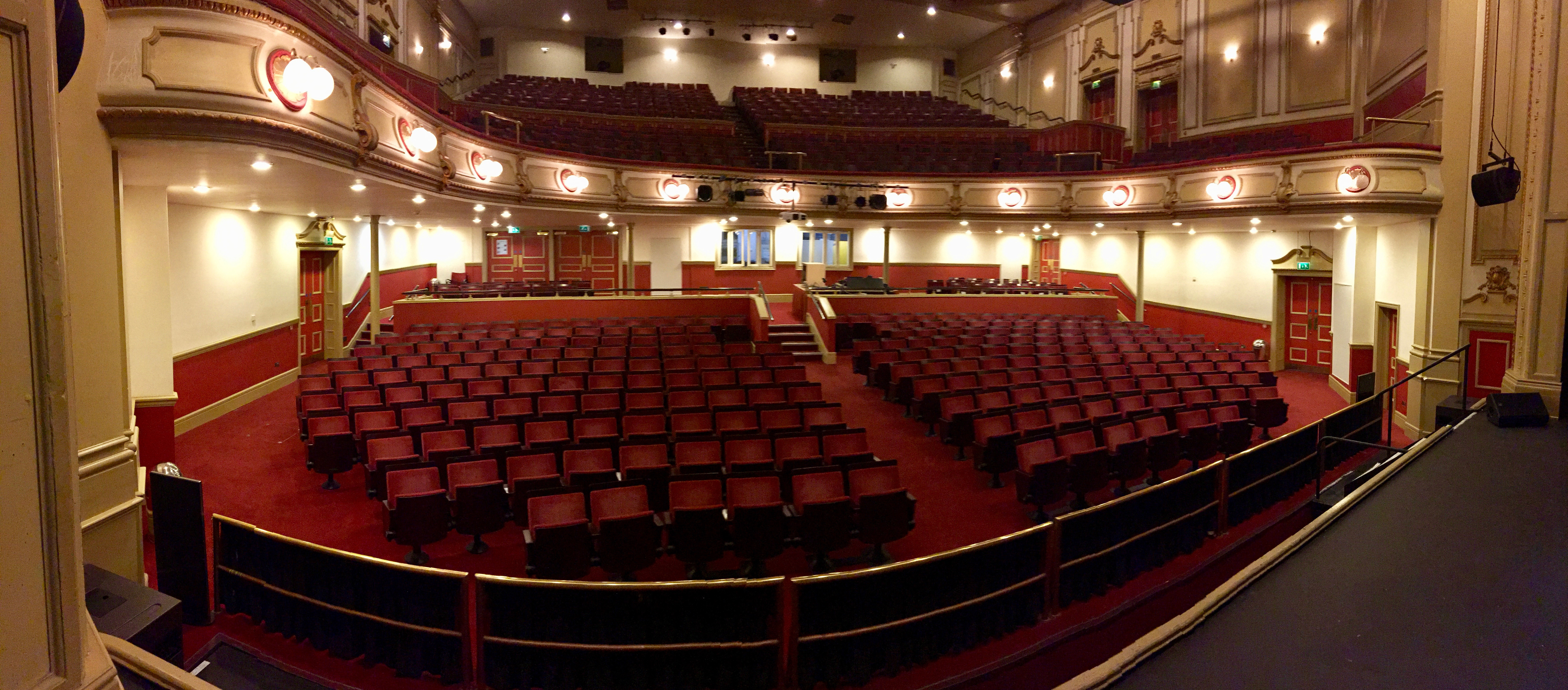 Bridlington Spa, Bridlington, East Riding of Yorkshire, England. Theatre Auditorium following the introduction of a stalls centre aisle in May 2016.